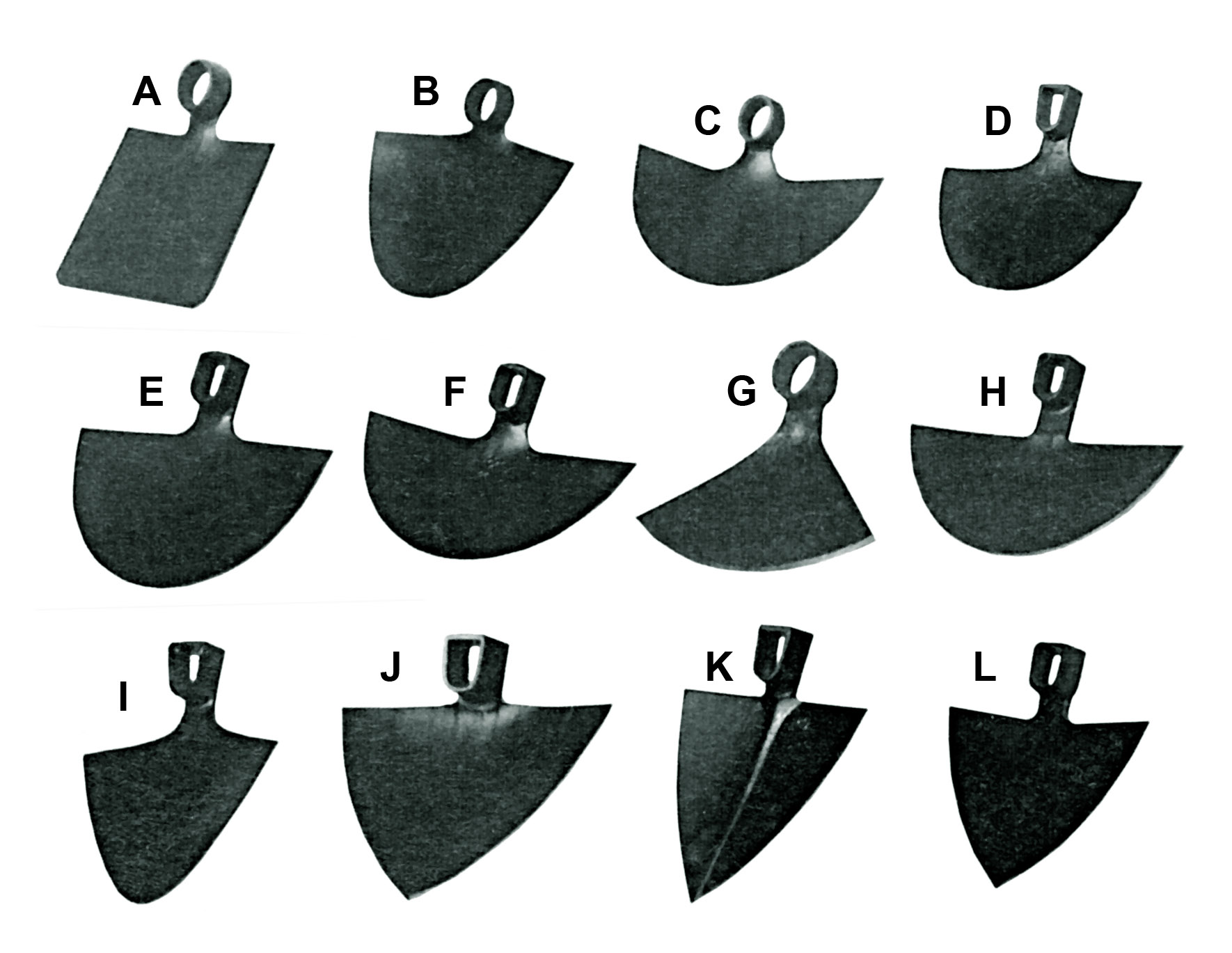 Different types of hoe head from Serbia, Ethnographic Museum, Belgrade (by Mihailo Grbic).